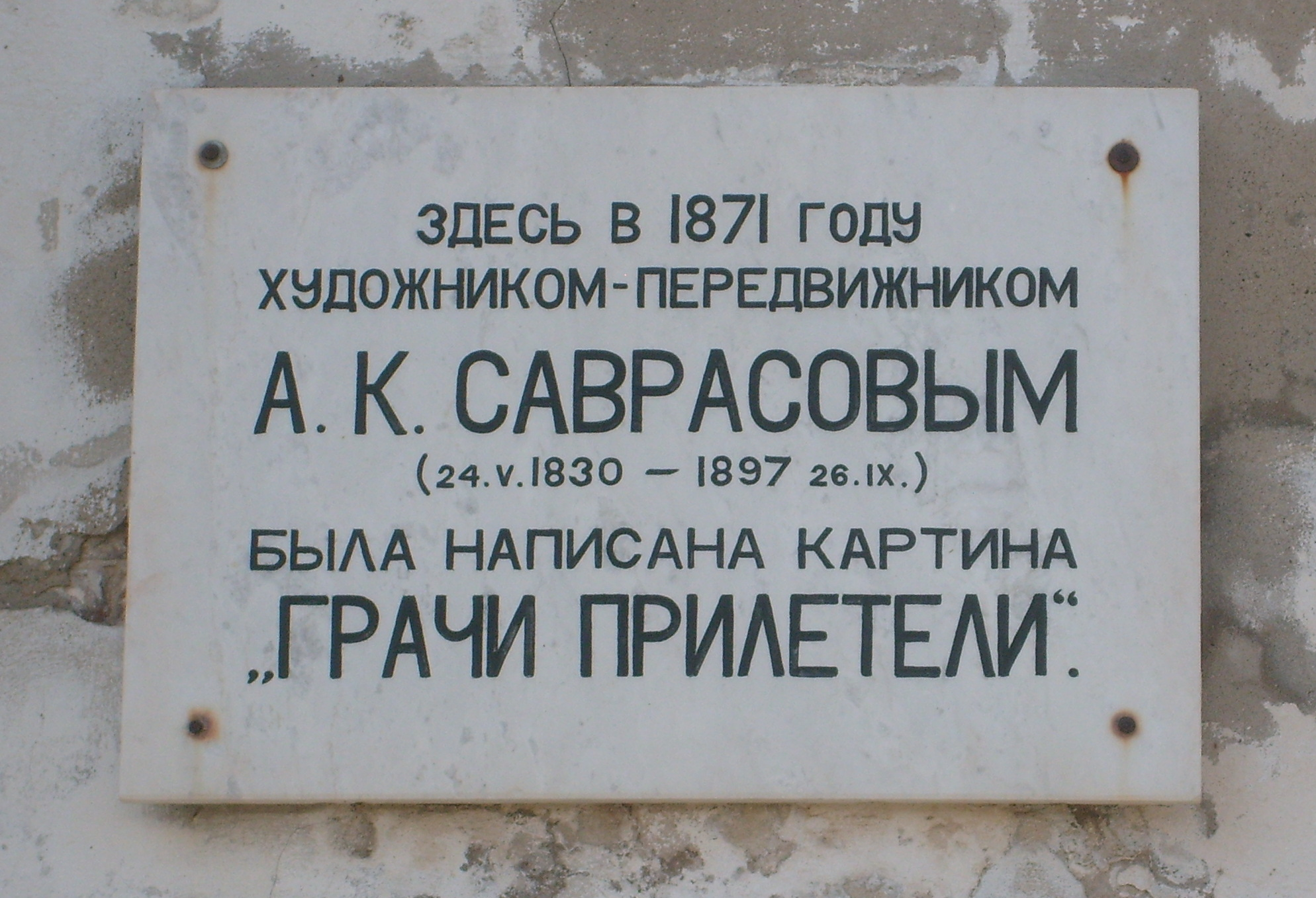 Памятная табличка в селе Сусанино.